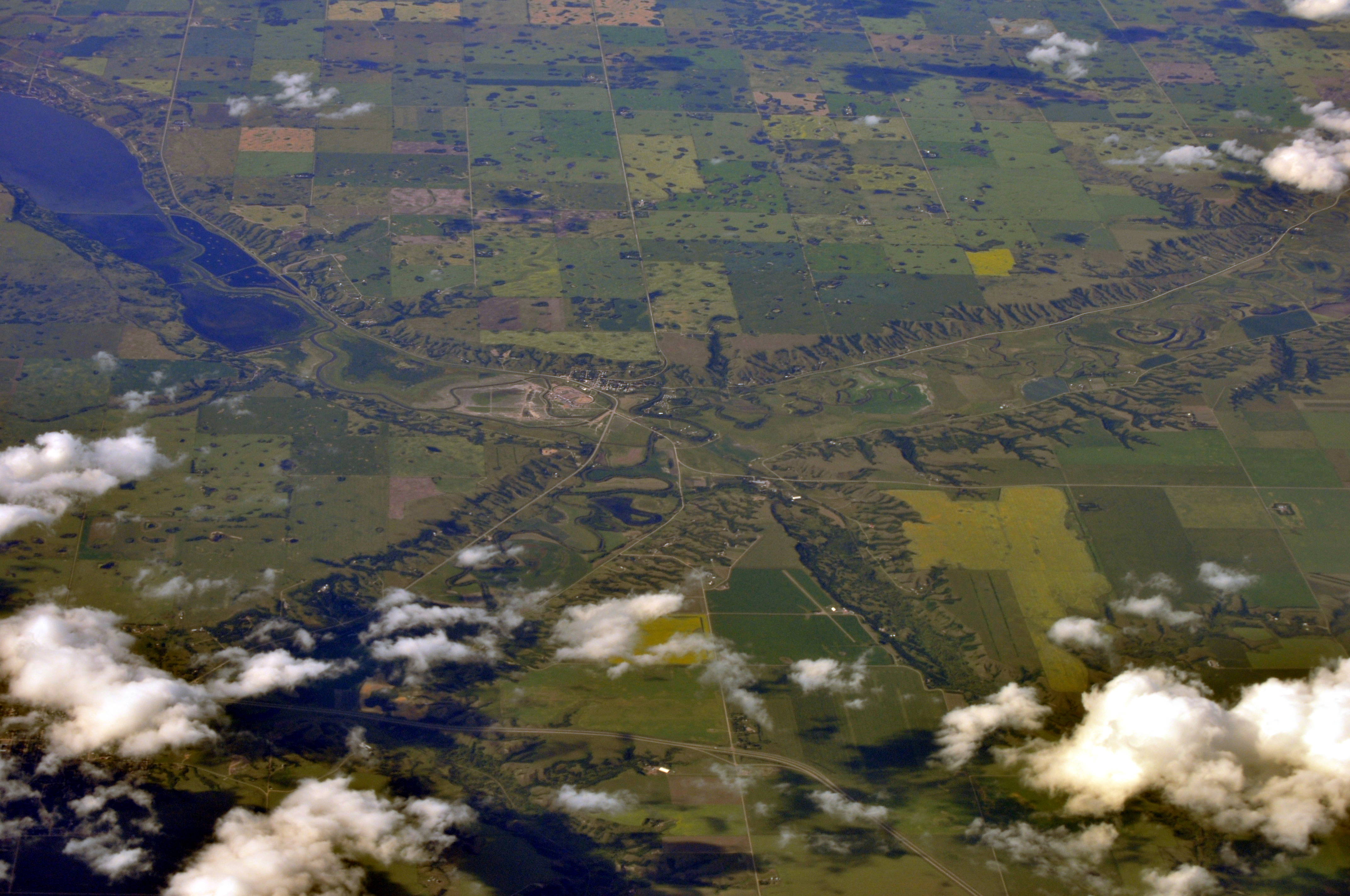 Aerial view of Craven, Saskatchewan, Canada and vicinity, from the south. Craven is just left of center.